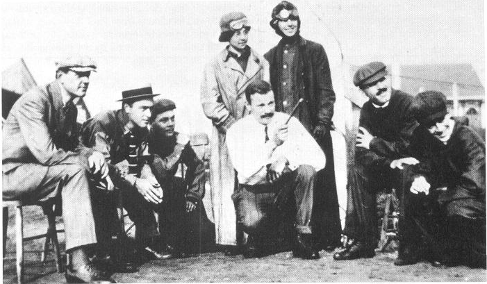 Harriet, woman to the right of the instructor, received her flight instruction at Moisant Flight School. At aviation school on Long Island, Harriet Quimby and Matilde Moisant, another woman student, listen to instructor Andre Houpert. Quimby and Moisant were the first two women in the United States to receive a pilot's license.